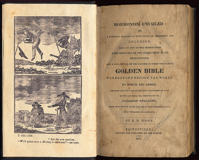 Inside cover of book Mormonism Unvailed: Or, A Faithful Account of that Singular Imposition and Delusion, from its Rise to the Present Time, by E. D. Howe.